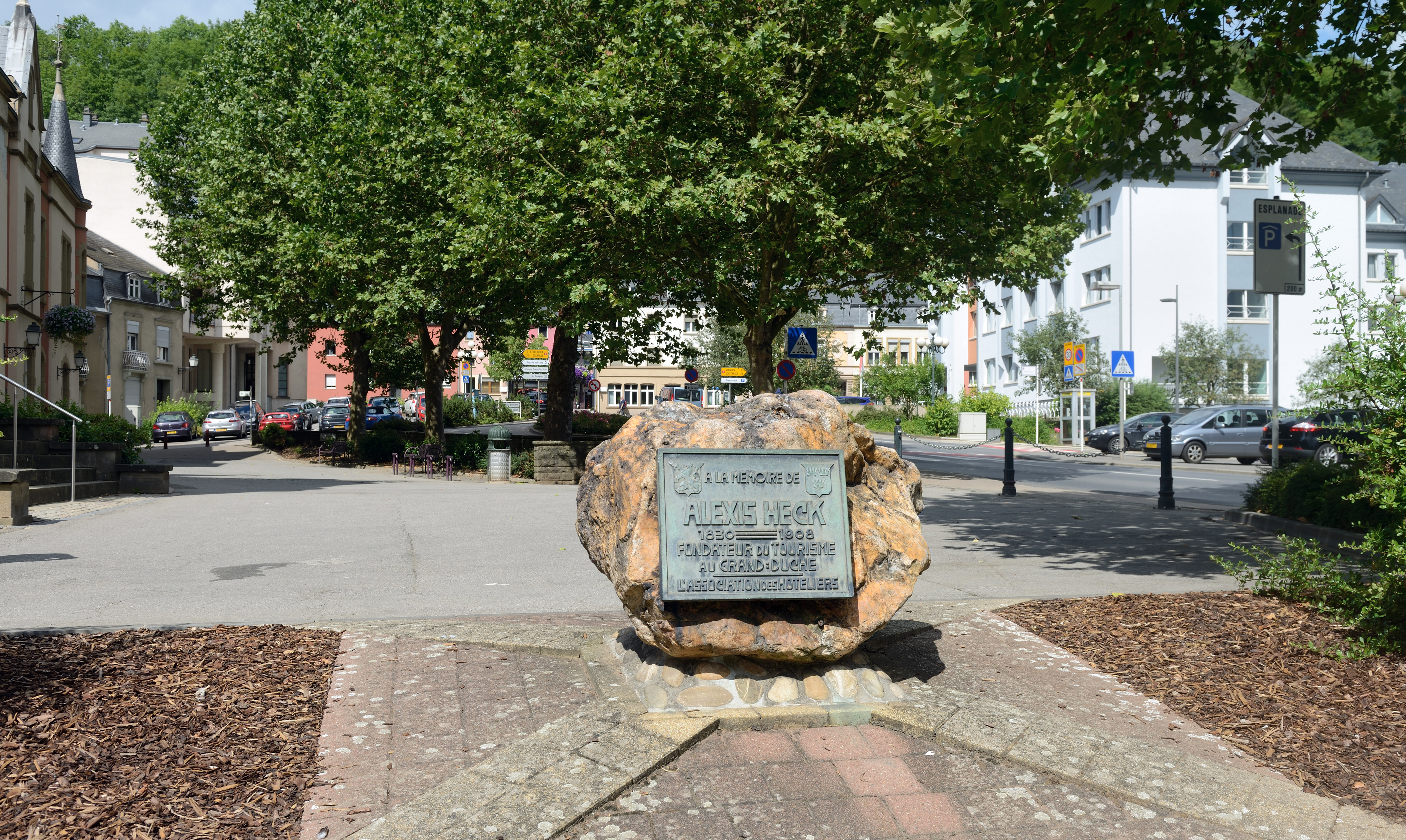 Alexis-Heck-monument in Diekirch, Luxembourg.